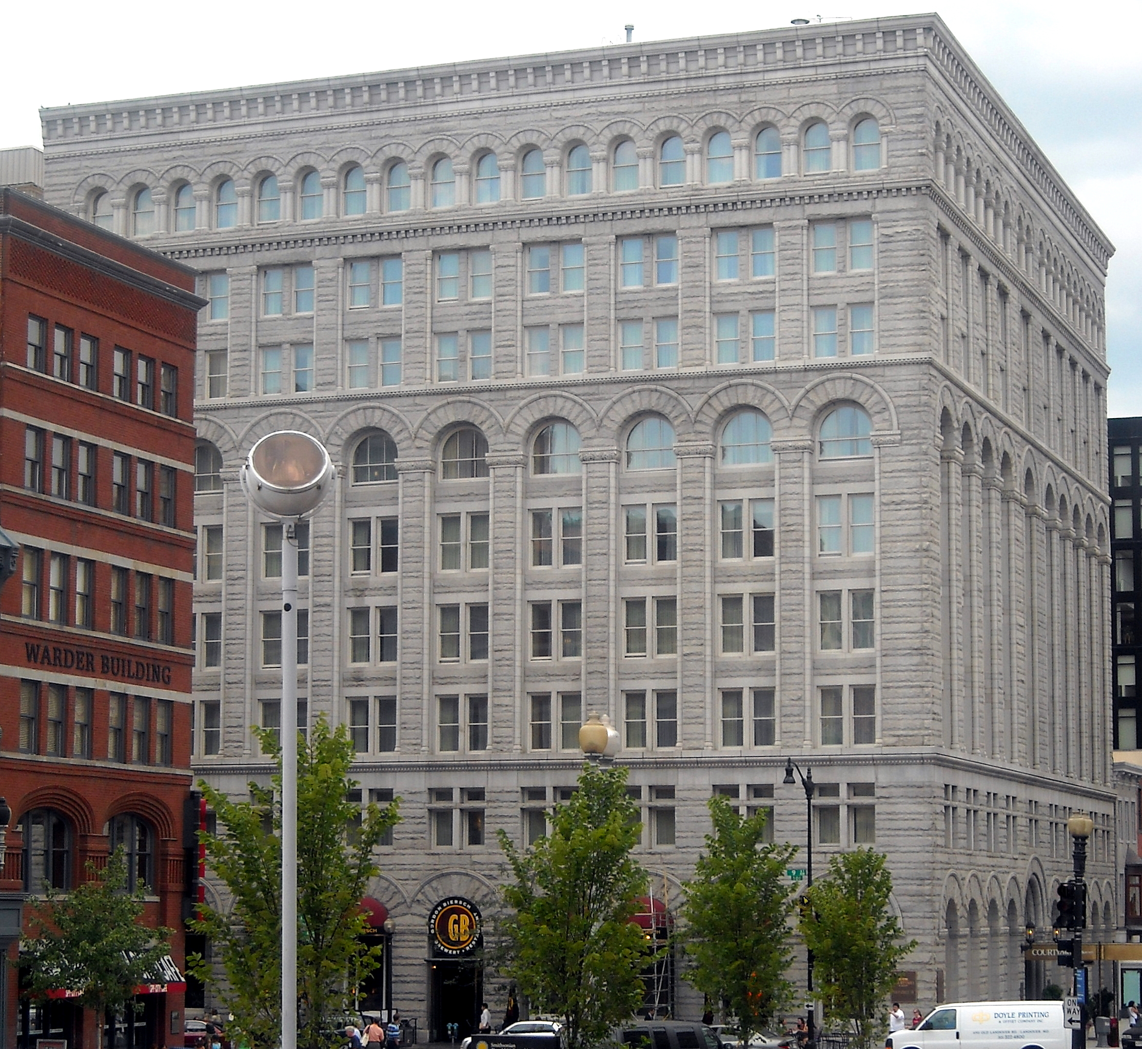 The Courtyard by Marriott hotel located at 900 F Street, NW in the Penn Quarter neighborhood of Washington, D.C. Designed by Arthur Heaton and James Hill in 1891, the Richardsonian Romanesque building was originally owned by the Washington Loan and Trust Company. It was purchased by Riggs Bank in 1954 and placed on the National Register of Historic Places in 1971. On the left is the Warder Building, designed by Nicholas T. Haller in 1892. It's now part of the International Spy Museum complex located on the 800 block of F Street, NW. That entire block is listed on the National Register of Historic Places. Both buildings are contributing properties to the Downtown Historic District and Pennsylvania Avenue National Historic Site.